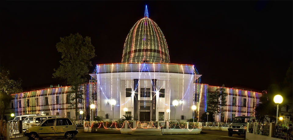 The Gauhati High Court (Assamese: গুৱাহাটী উচ্চ আদালত) was established on 1 March 1948 after the Government of India Act 1935 was passed. It was originally known as the High Court of Assam and Nagaland, but renamed as Gauhati High Court in 1971 by the North East Areas (Reorganisation) Act, 1971.